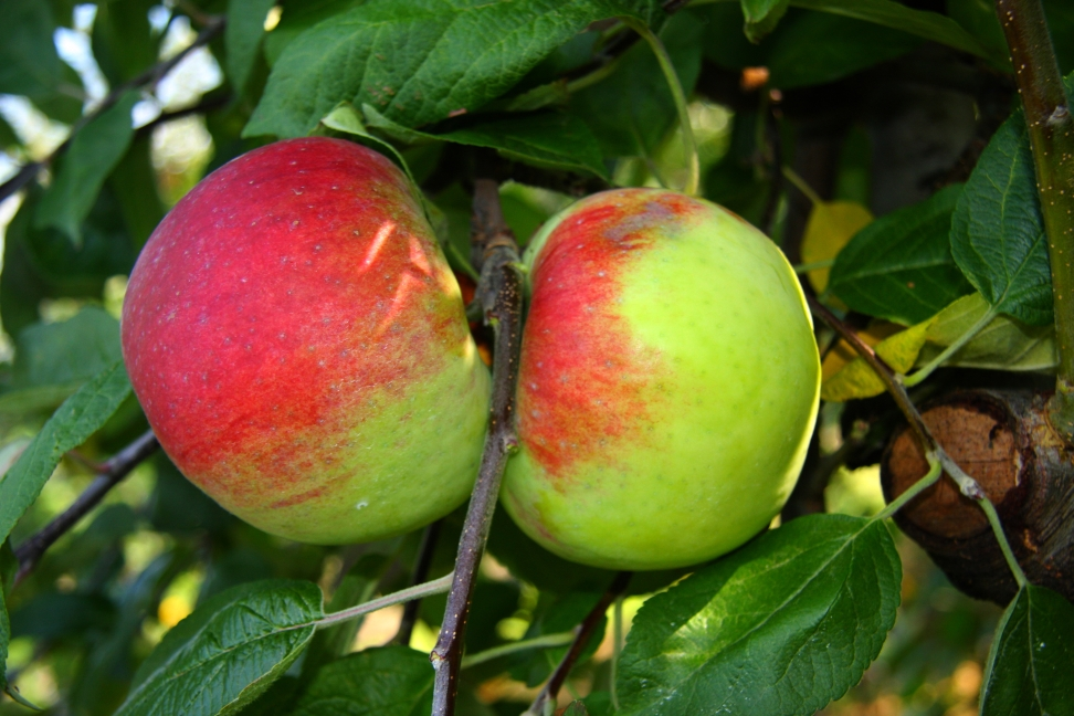 Fruit of Cortland apple